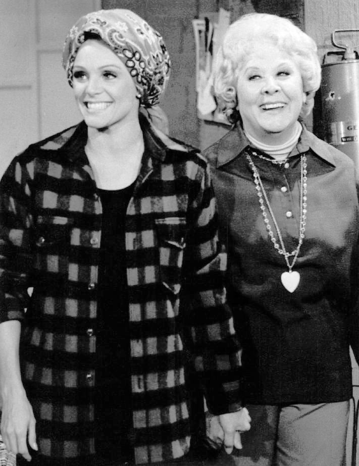 Photo of Valerie Harper as Rhoda and guest star Vivian Vance from the television program Rhoda. In this episode, Ida feels her daughter no longer needs her when Rhoda gets a new neighbor (Vance).